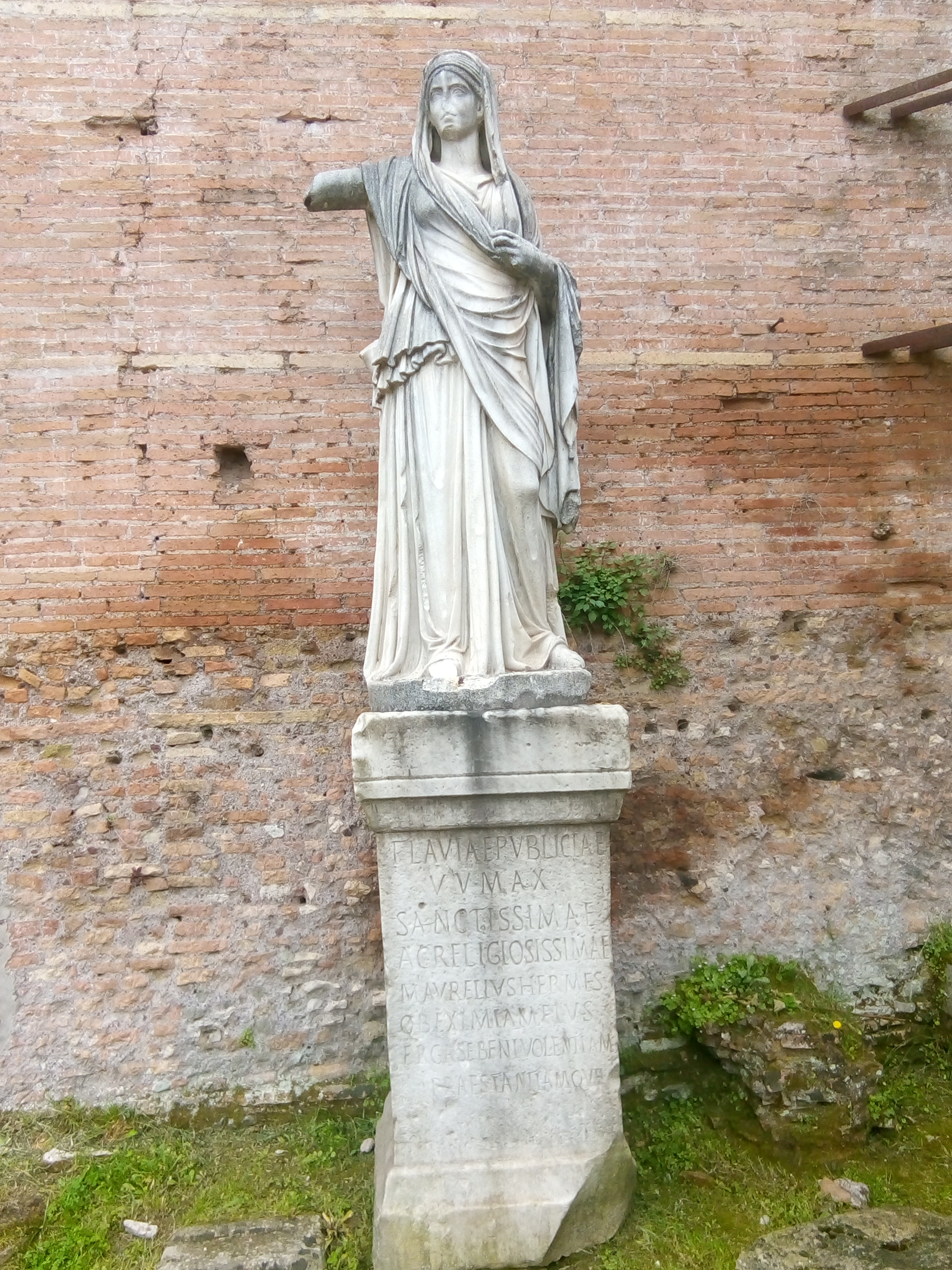 Statue of Vestal